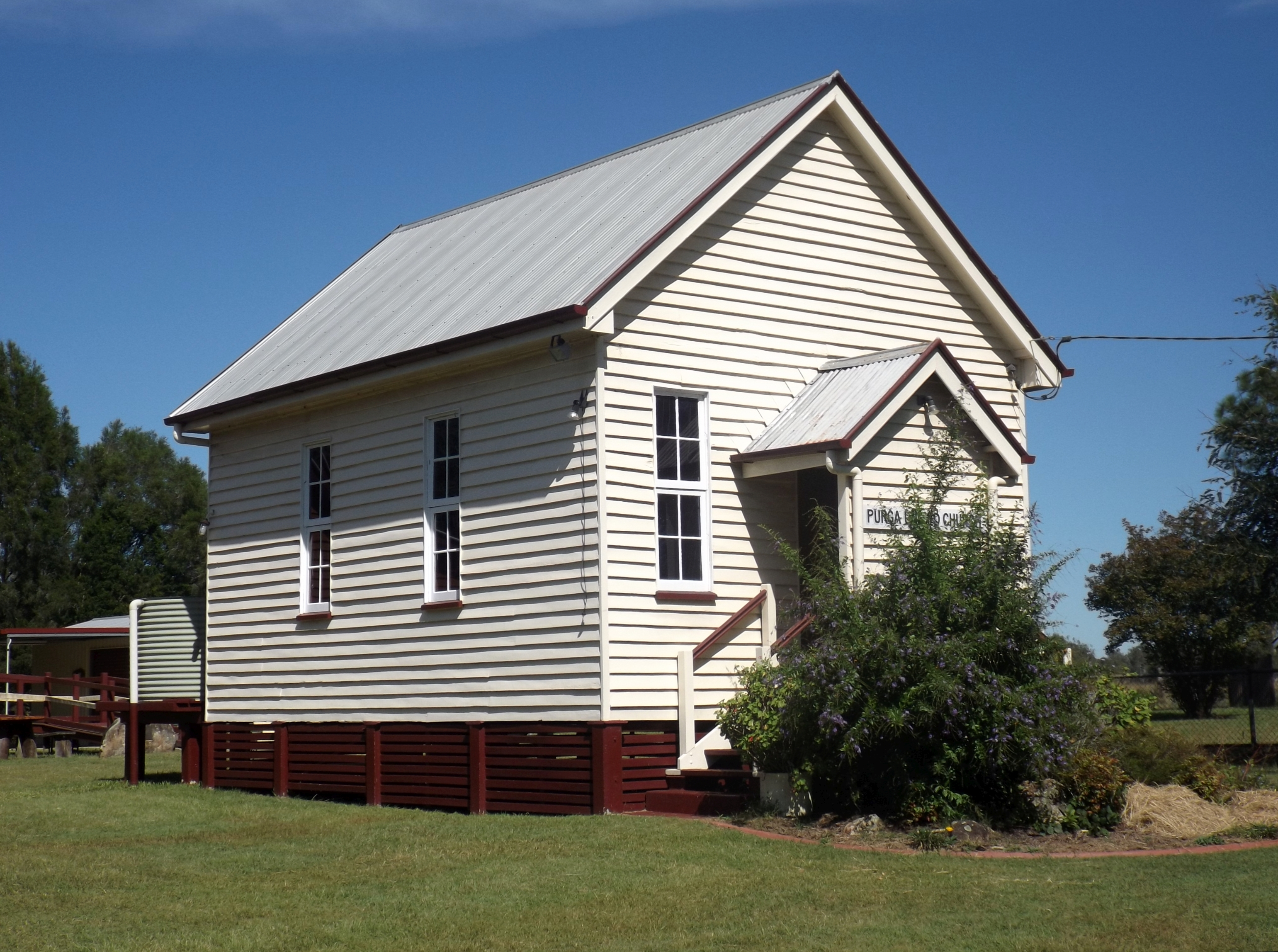 Photo of Purga United Church at Purga, City of Ipswich, Queensland, Australia.